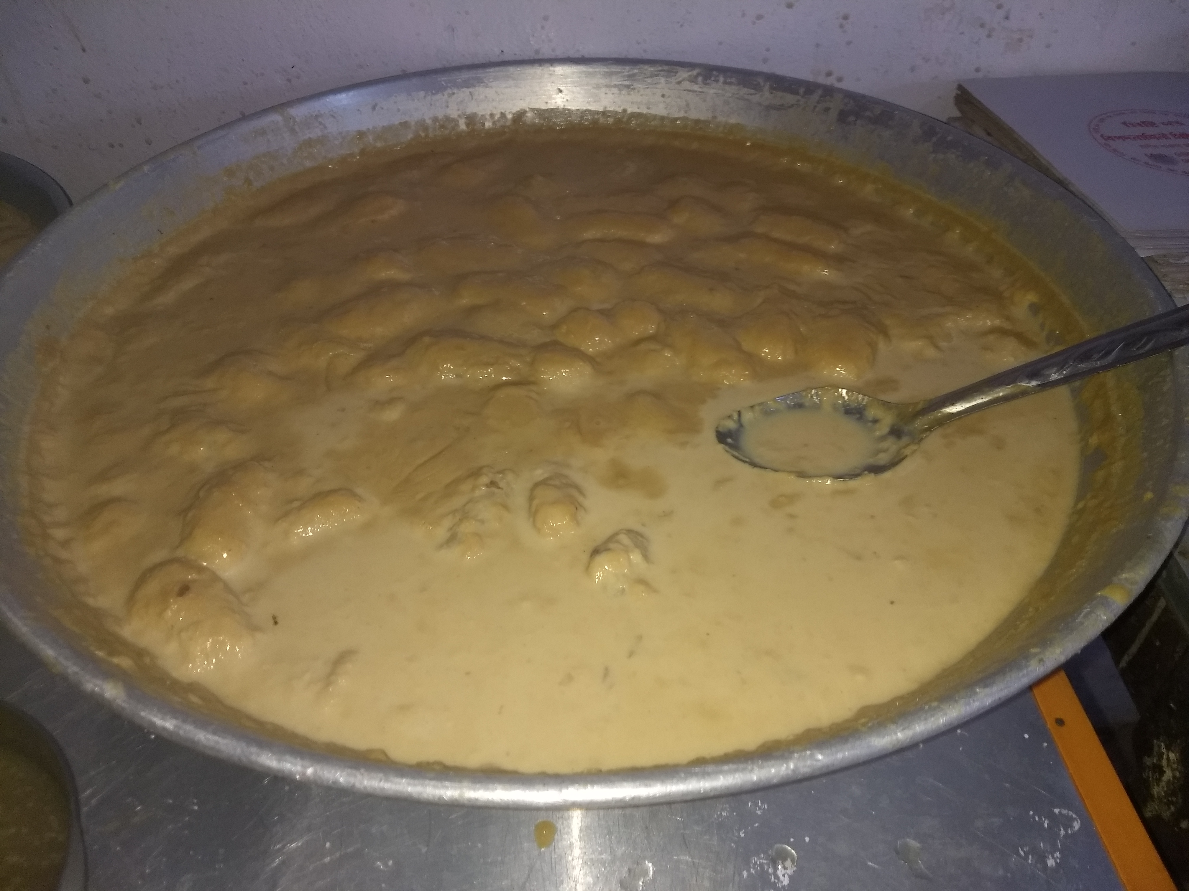 Khirtoya bengali sweets, Picture taken in Agartala, Tripura